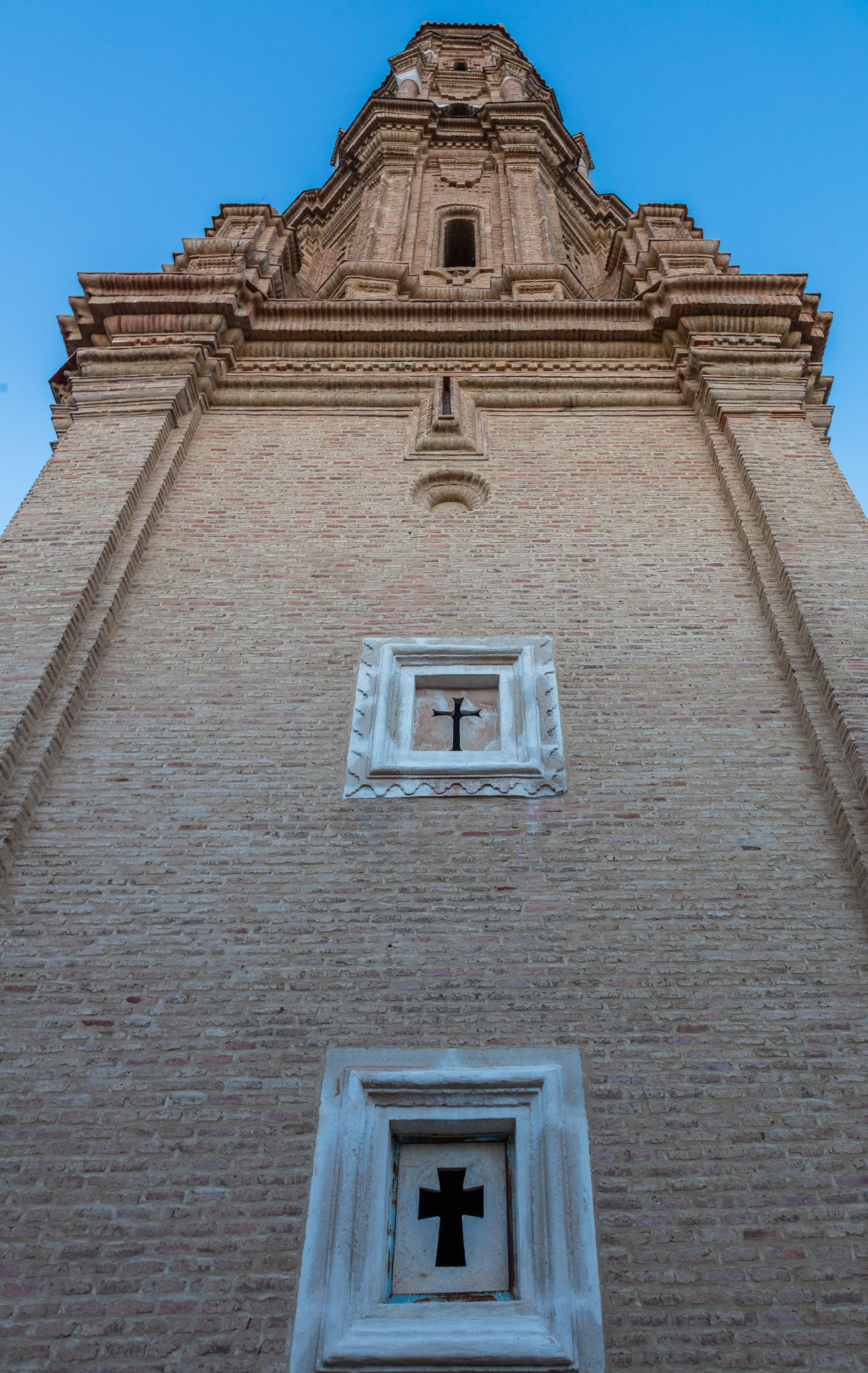 Church of St. Mary Magdalene, Lécera, Saragossa, Spain